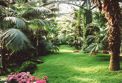 zoo wilhelma in stuttgart, germany in 1996, entrance of tropical building